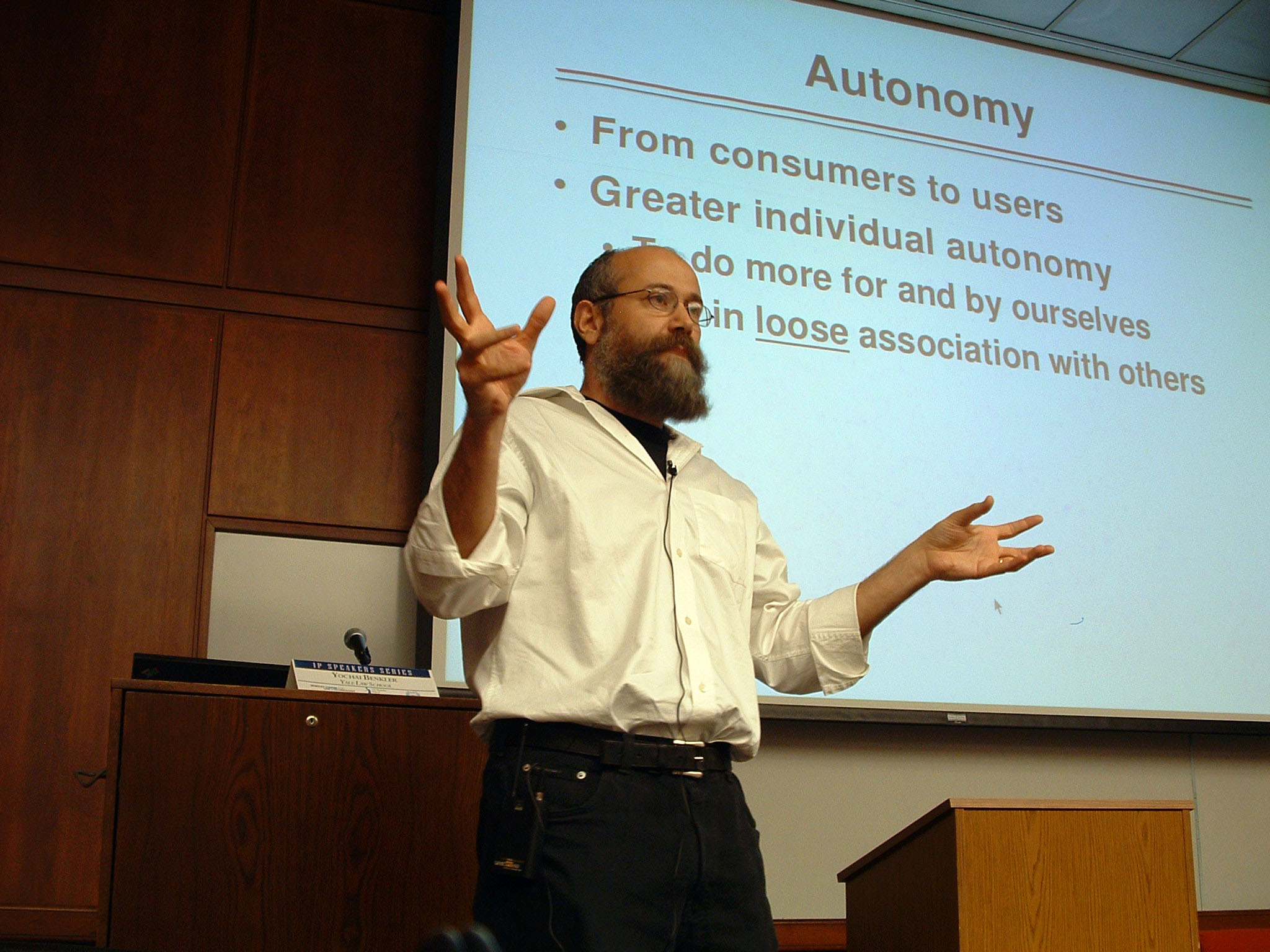 High-res image of Yochai Benkler giving a talk at Boalt Hall on 27 April 2006 on his book, The Wealth of Networks.